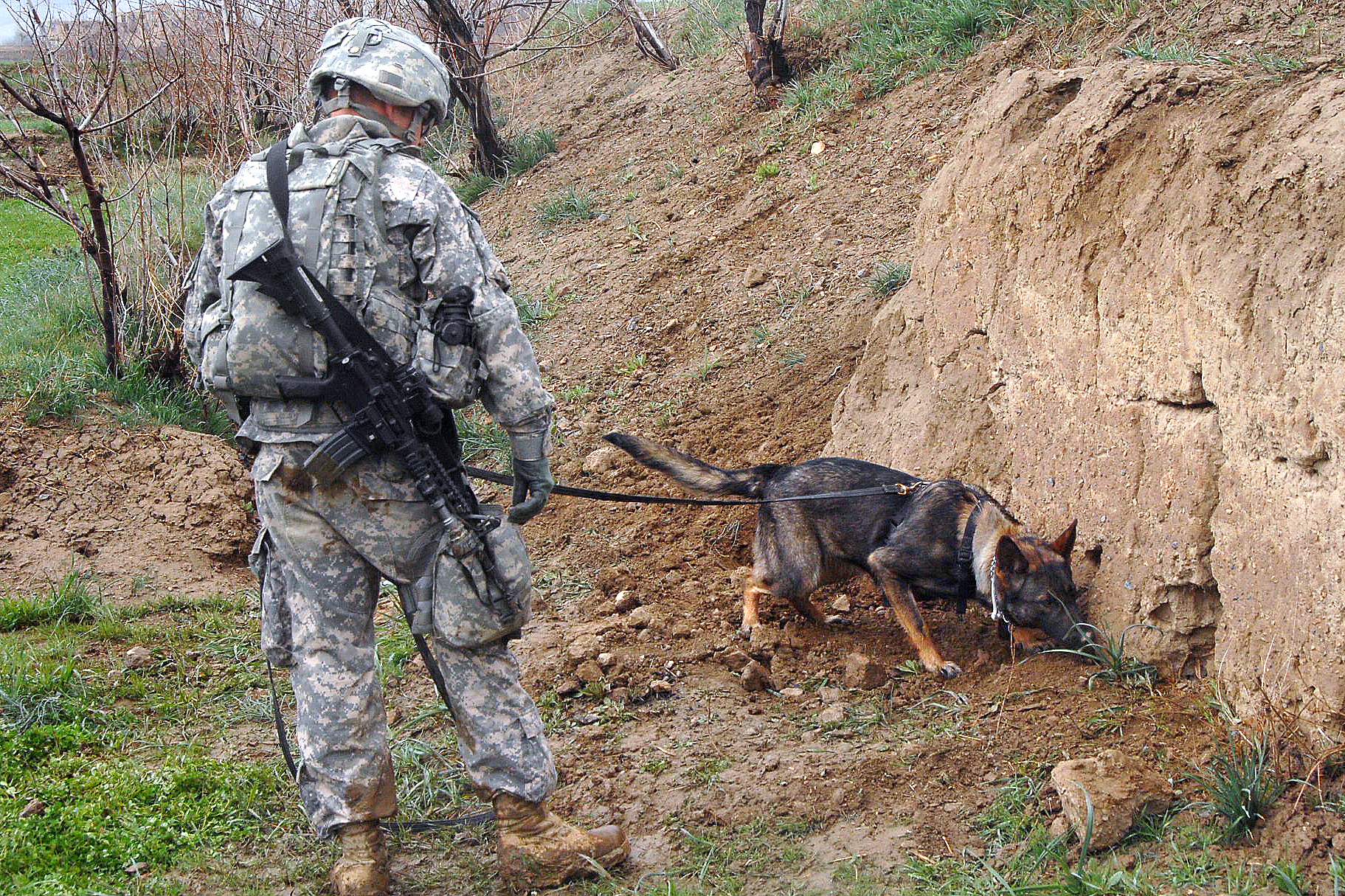 U.S. Army Sgt. Stephen M. Netzley and his military working dog check for explosives in an area where a weapons cache was found in Logar province, Baraki Barak, Afghanistan, March 26, 2009. Netzley is assigned to the 10th Mountain Division, 3rd Battalion, 71st Cavalry Regiment, 3rd Brigade Combat Team. U.S. Army photo by Sgt. Joshua LaPere. See more at Army.mil